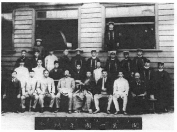 1st anniversary of Taga Denki company